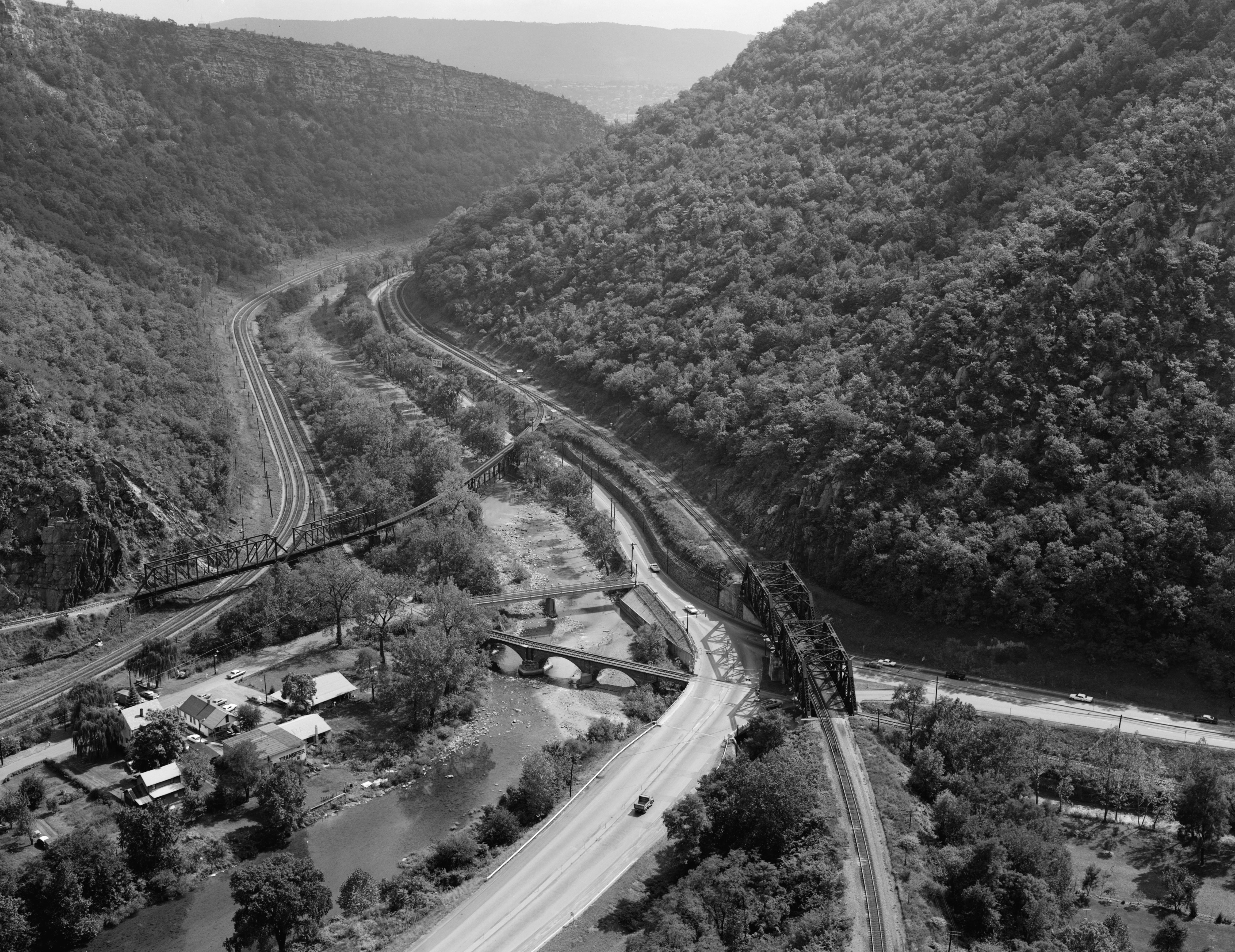 Cumberland & Pennsylvania Railroad, Wills Creek Bridge, Spanning Wills Creek 587 feet West of Eckhart Junction, Cumberland vicinity, Allegany County, MD